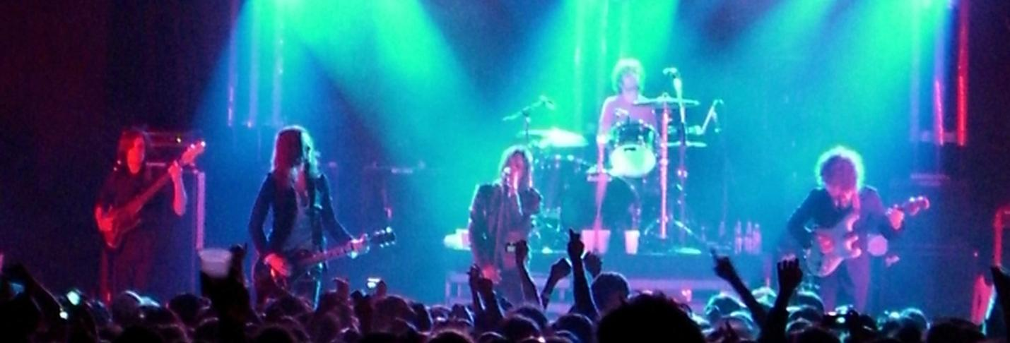 The Strokes live at Stubb's March 14th night before SXSW.